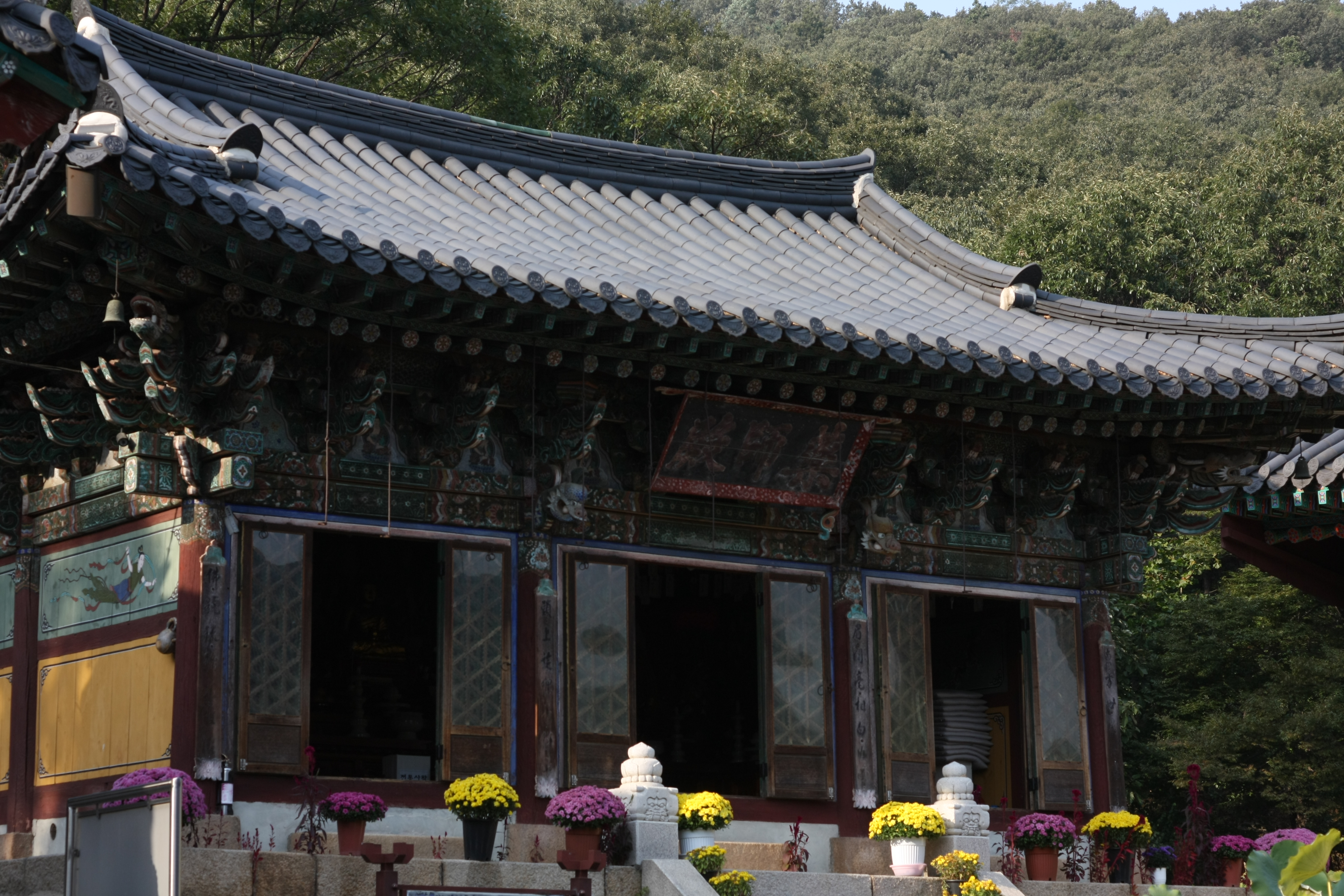 Heung-guksa temple in Goyang, Korea